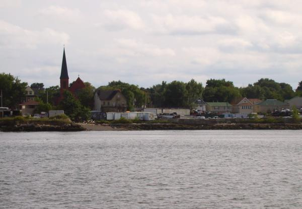 Port Richmond as seen from Bayonne across the Kill Van Kull © 2004 Matthew Trump